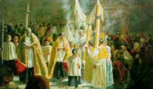 Processione Benvenuto Crispoldi